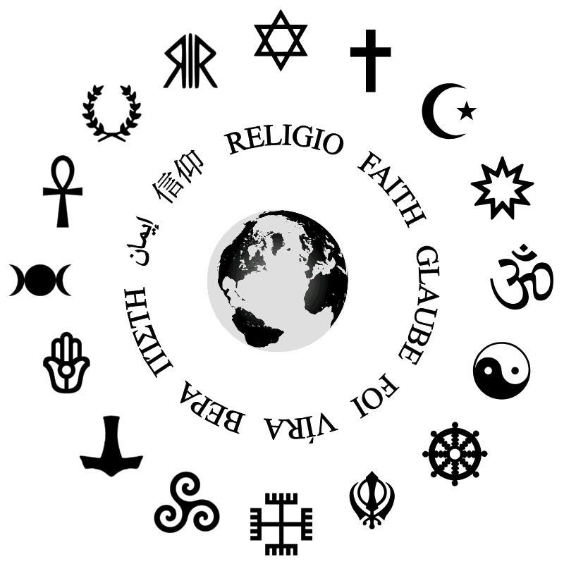 "Religious circle" Symbols by the clockwise order: Judaism Christianity Islam Bahá'í Faith Hinduism Taoism Buddhism Sikhism Rodnoveri Celtic paganism (contemporary) Heathenism Semitic paganism (contemporary) Wicca Kemetism Hellenic paganism (contemporary) Roman paganism (contemporary)Languages by the clockwise order: Latin English German French Czech Russian Modern Greek (ancient would be πιστις) Arabic Chinese Simplified